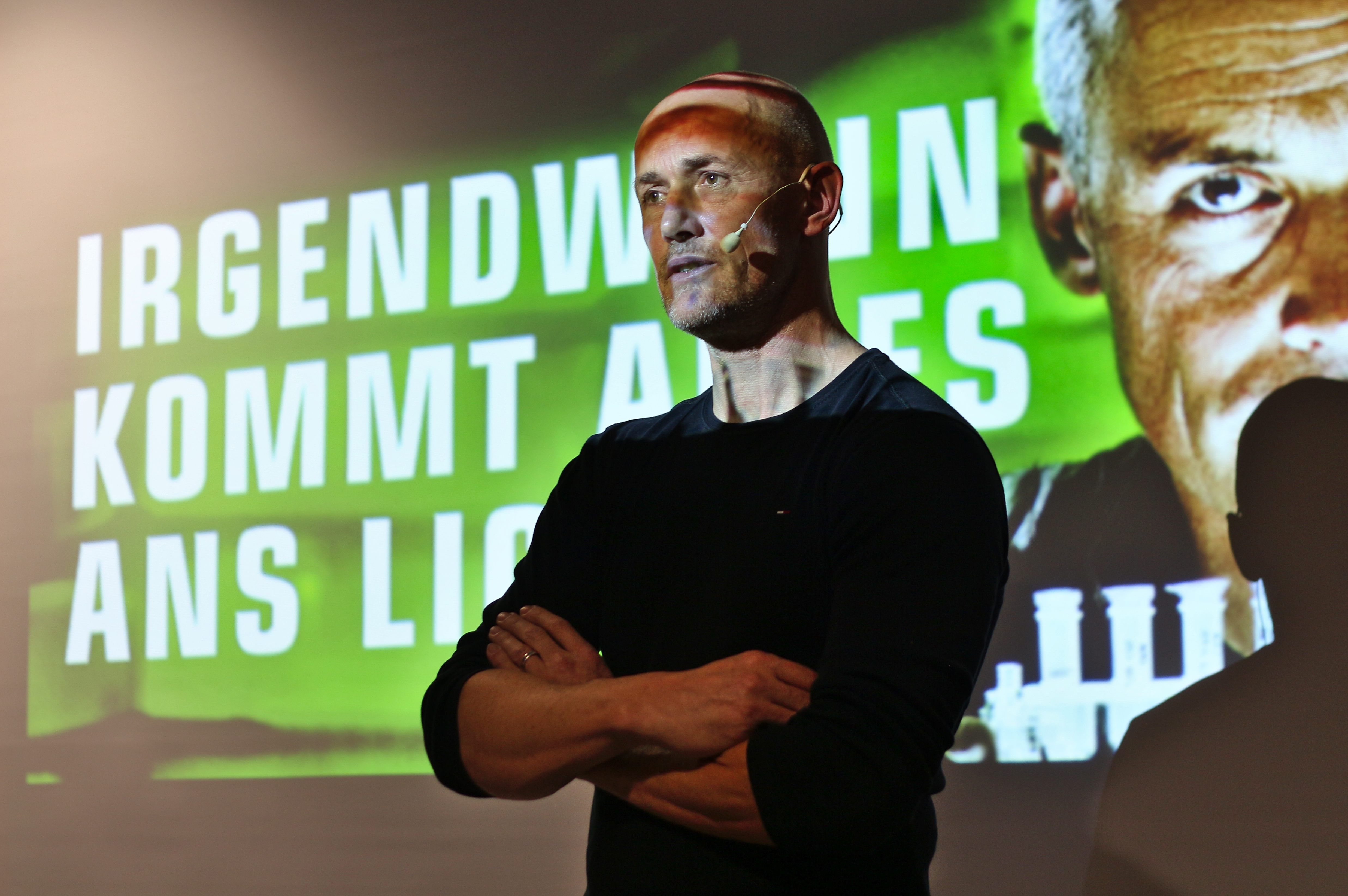 Walther Parson